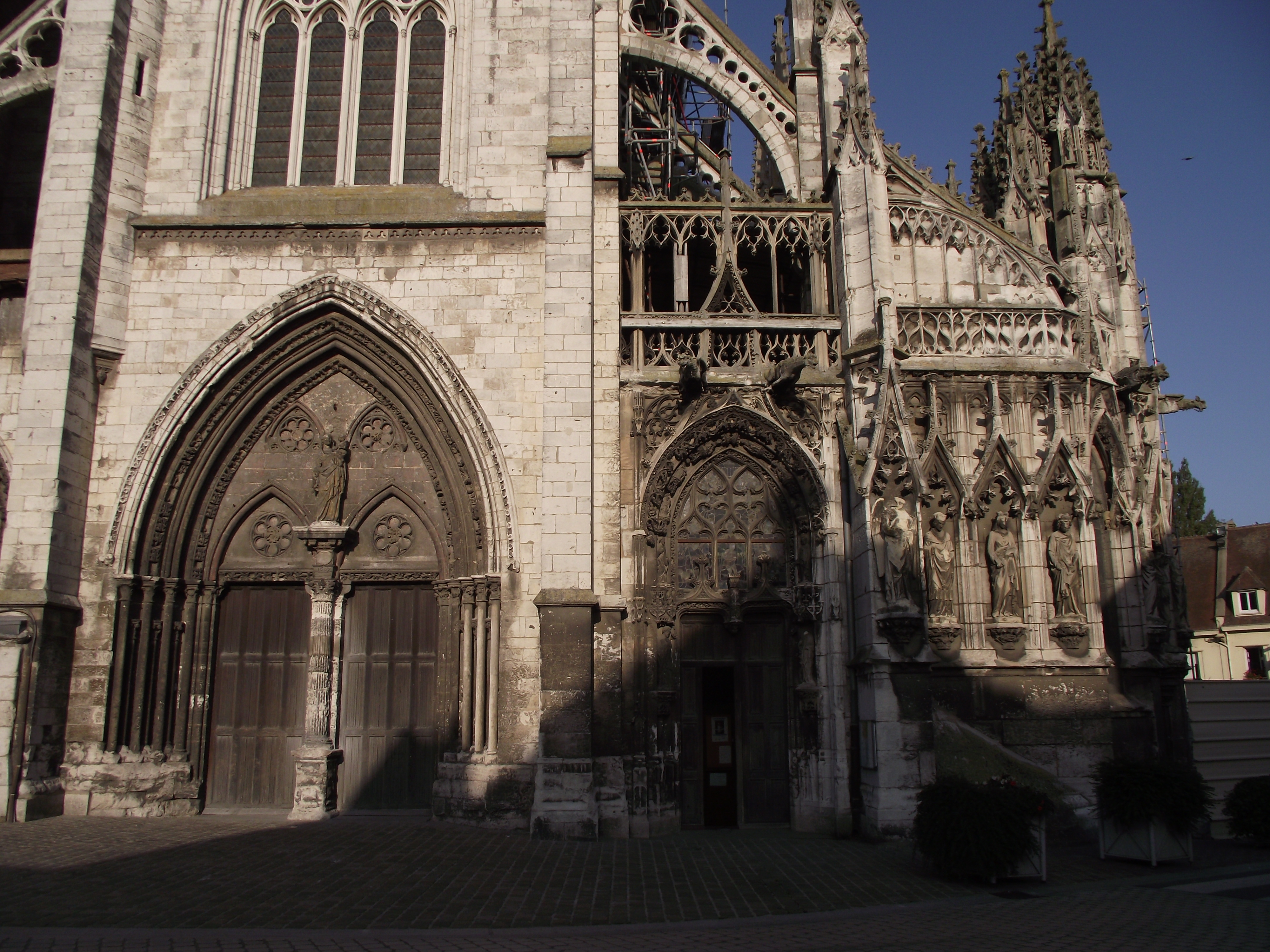 Louviers, Church of Our Lady, XI-XIII Century